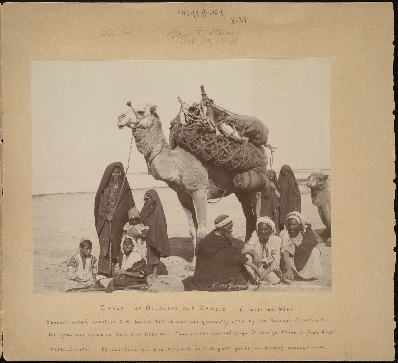 BPLDC no.: 08_04_000182 Page Title: Group of Bedouins and Camels Collection: William Vaughn Tupper Scrapbook Collection Album: On the Nile. Cairo to Luxor. Call no.: 4098B.104 v31 (p. 1) Creator: Tupper, William Vaughn Genre: Scrapbooks; Albumen prints Extent: 1 photographic print mounted on page : albumen ; page 33 x 39 cm. Description: Scrapbook page contains one photograph of a group of Bedouins with camels. Transcription: Group of Bedouins and Camels. Gemel- Fem Naka. Several papyri mention the camel but it was not generally used by the Ancient Egyptians. Its great use came in with the Beduins. Even in the hottest days it can ' go three or four days' withought water- It can live on the coarsest and dryest grass or prickly acacia leaves. Notes: Page description supplied by cataloger, derived from captions and/or annotated information. ; Caption on image: No. 533 Groupe des bedouins et chanteaux BPL Department: Print Department Rights: No known restrictions.